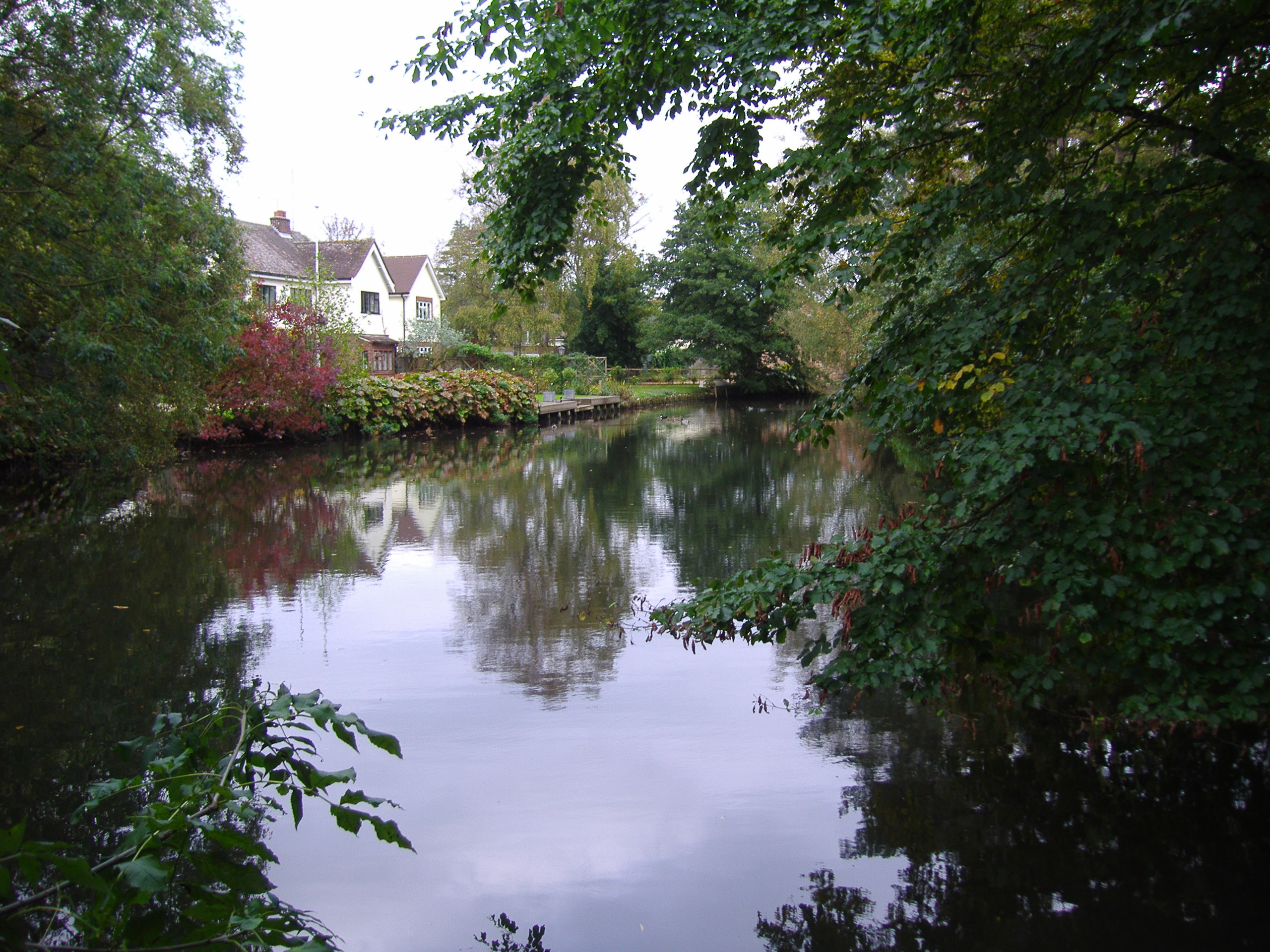 A Digital Photograph Of Snettisham Mill Pond